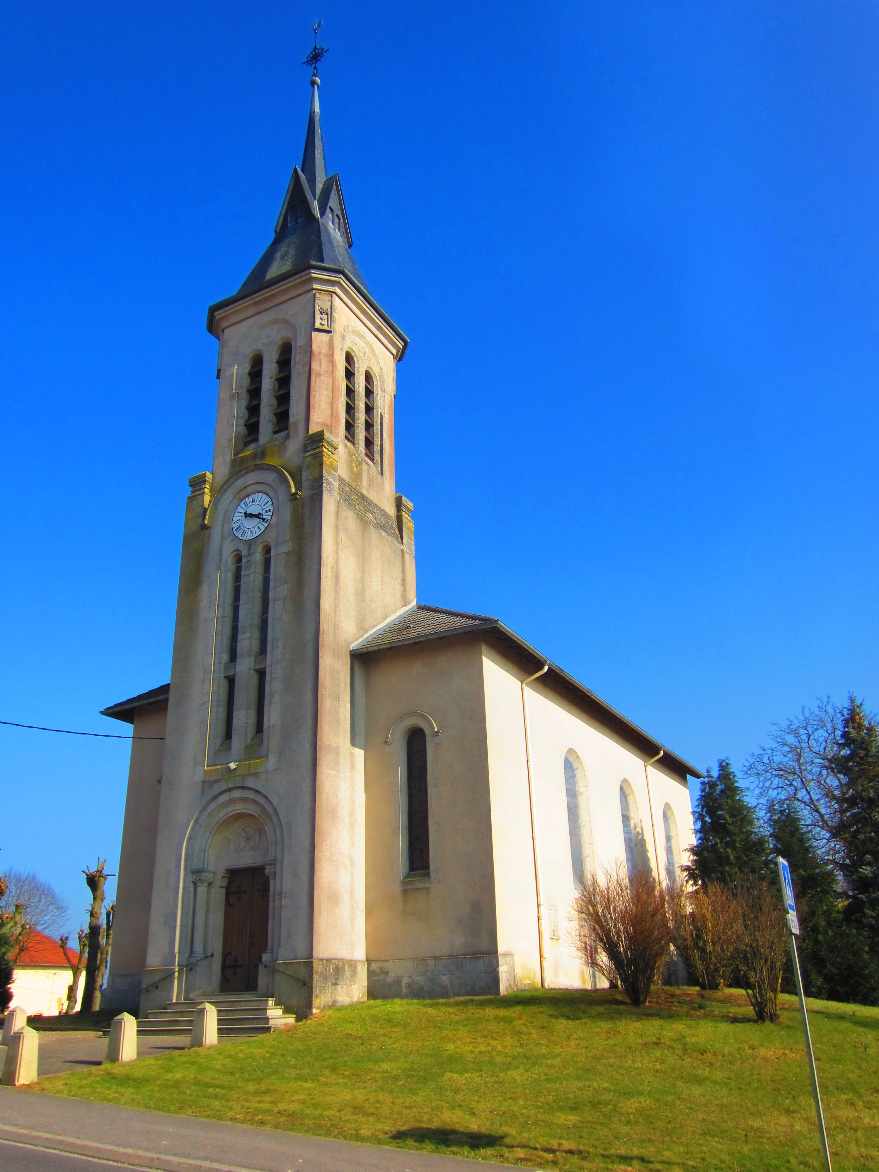 Bernecourt church